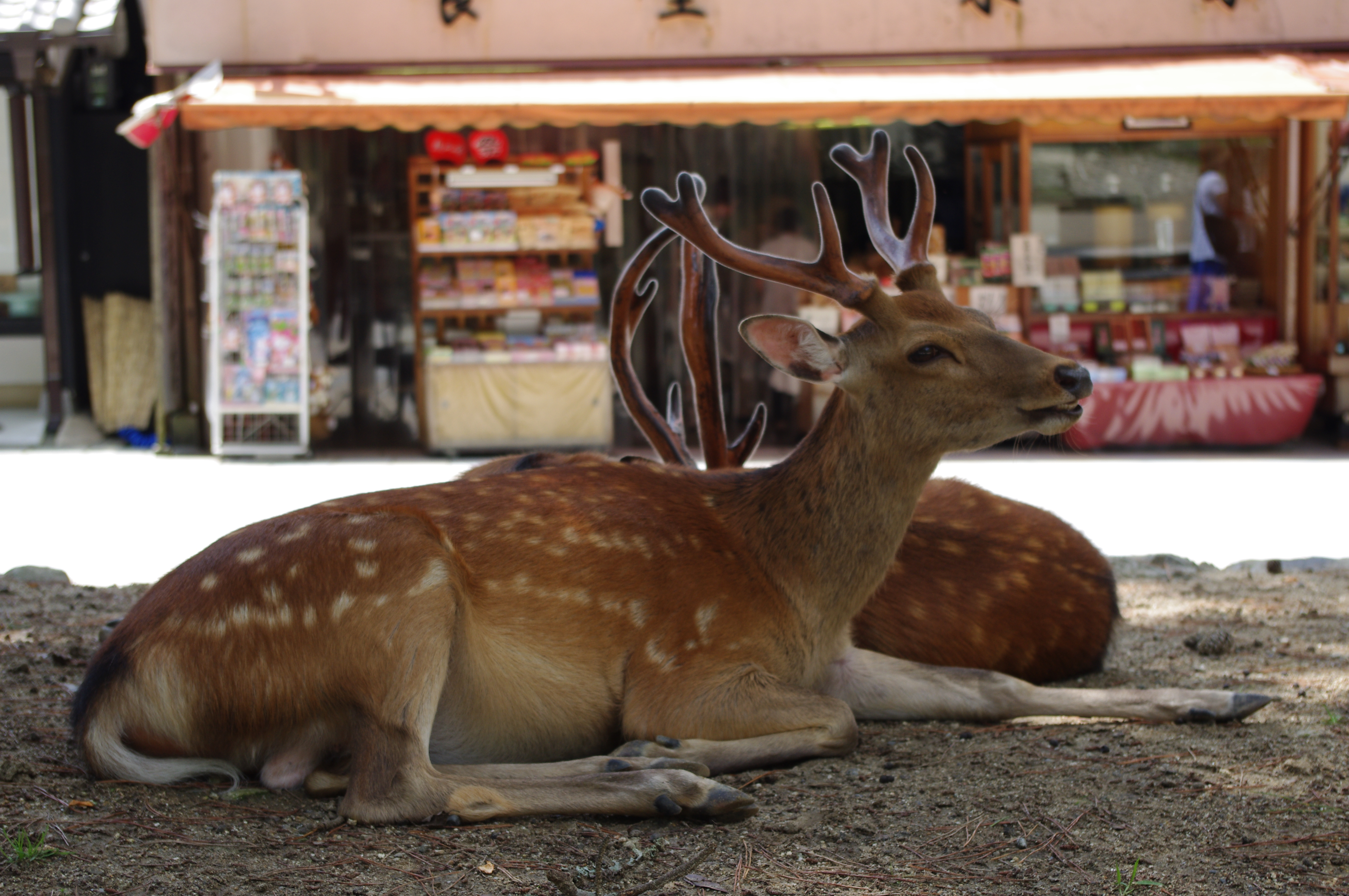 Sika deer in the town of Nara